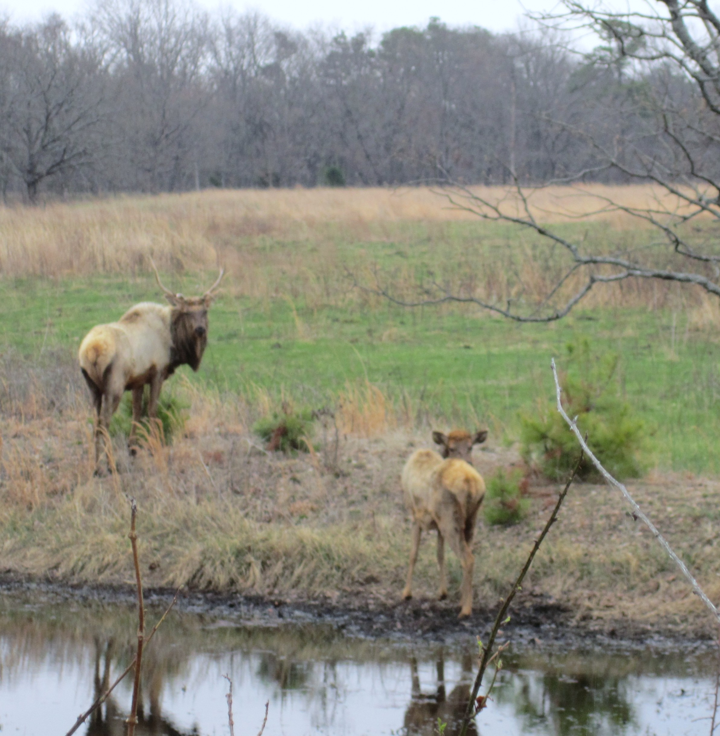 A photo of Elk (Cervus canadensis) at the J.T. Nickel Family Nature and Wildlife Preserve, Oklahoma